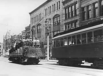 600 block Granville Street, Vancouver, Canada. Looking north east from north of Georgia Street. The Hudson's Bay department store is partially visible far right. Several streetcars are running, including a B.C. Electric observation car, which made a sightseeing trip popular with tourists. A little beyond it on the right is the New York Block and further on is the tower of the Bank of Montreal. The Canadian Bank of Commerce is the white building and beyond that is the CPR depot. On the left side of the street a number of businesses can be seen. Also available as a lantern slide (66982). Caption on lantern slide reads, "Out to see the city."